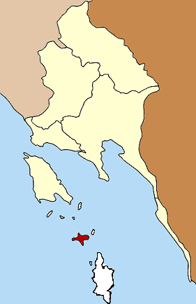 Ko Mak in relation to Ko Kut District